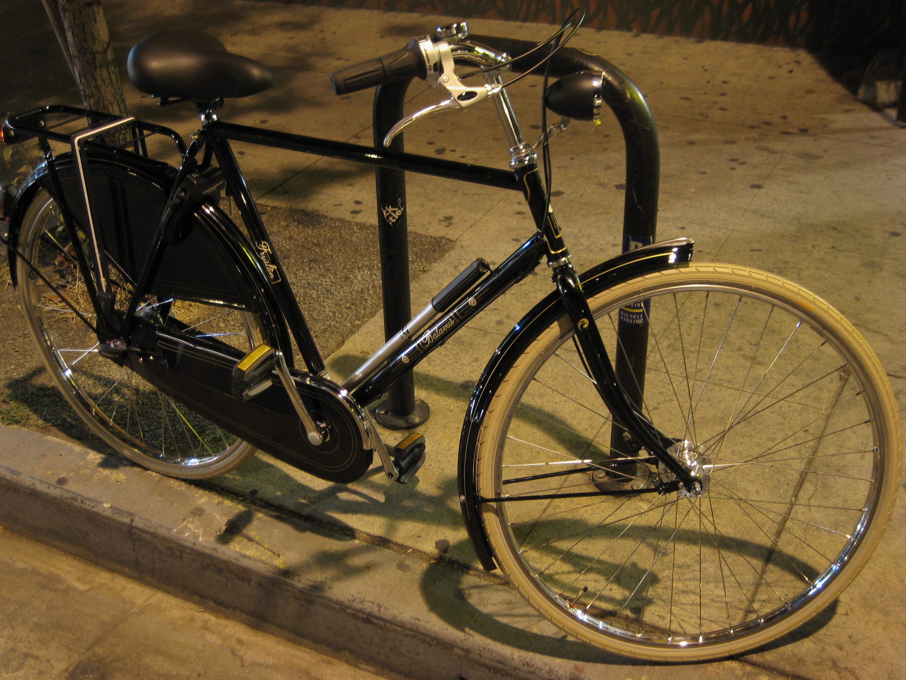 “Off-the-shelf” Batavus, “Favoriet” Old Dutch Roadster